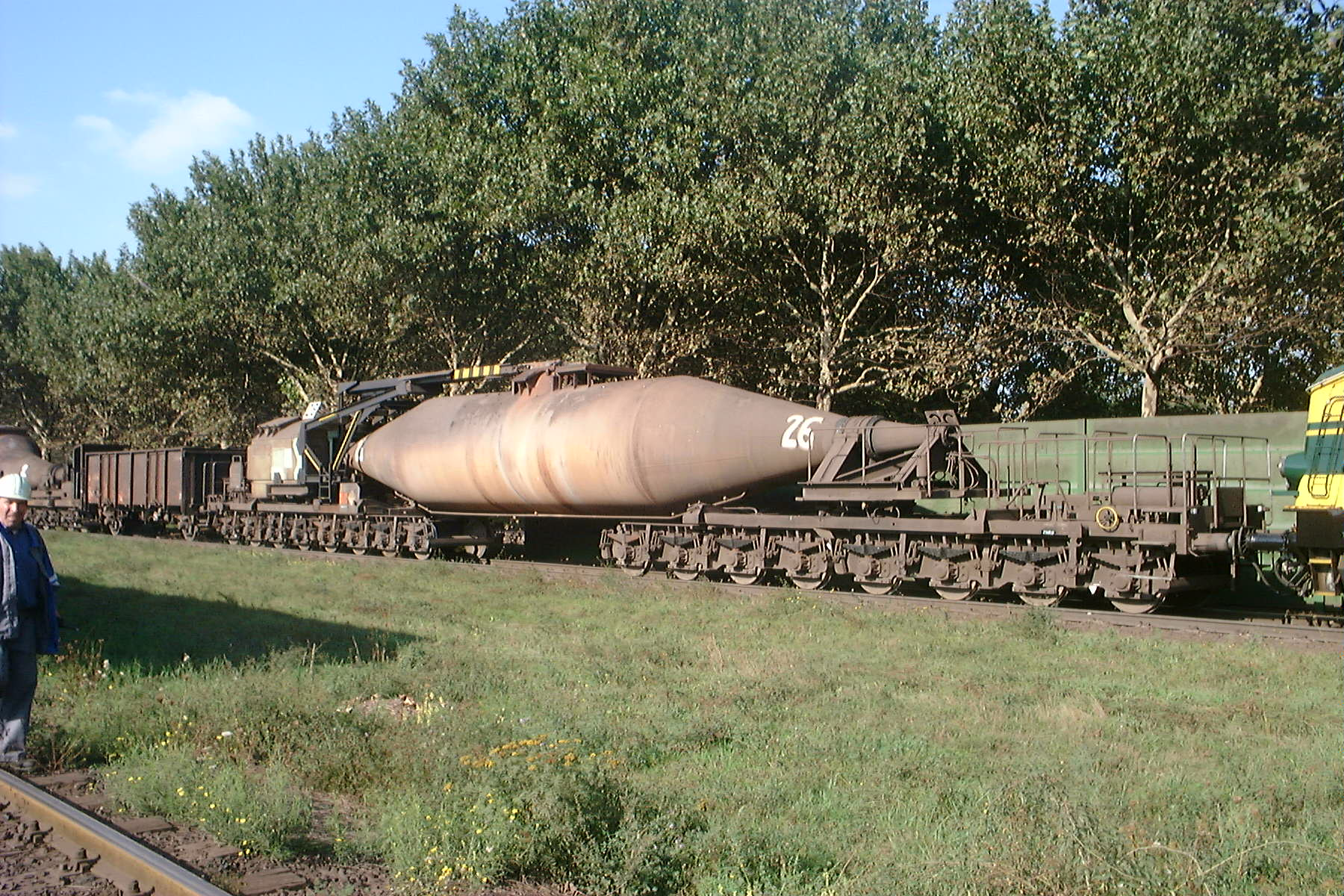 Torpedo car for transporting molten iron.